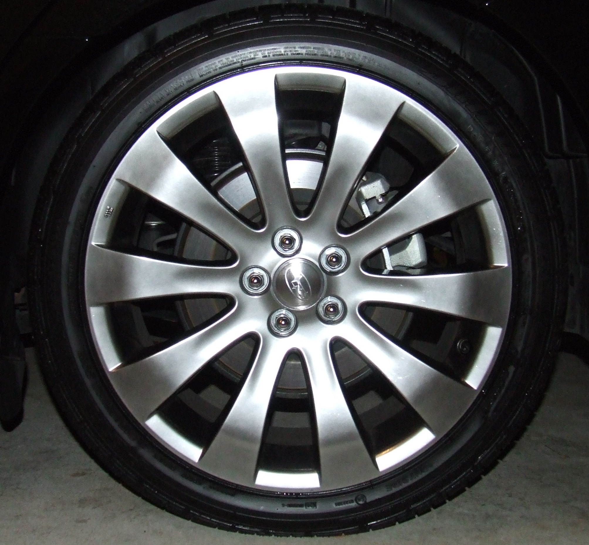 18-inch alloy wheel of a 2007 Subaru Liberty (BLE MY07) 3.0R Spec.B sedan. Photographed in New South Wales, Australia.